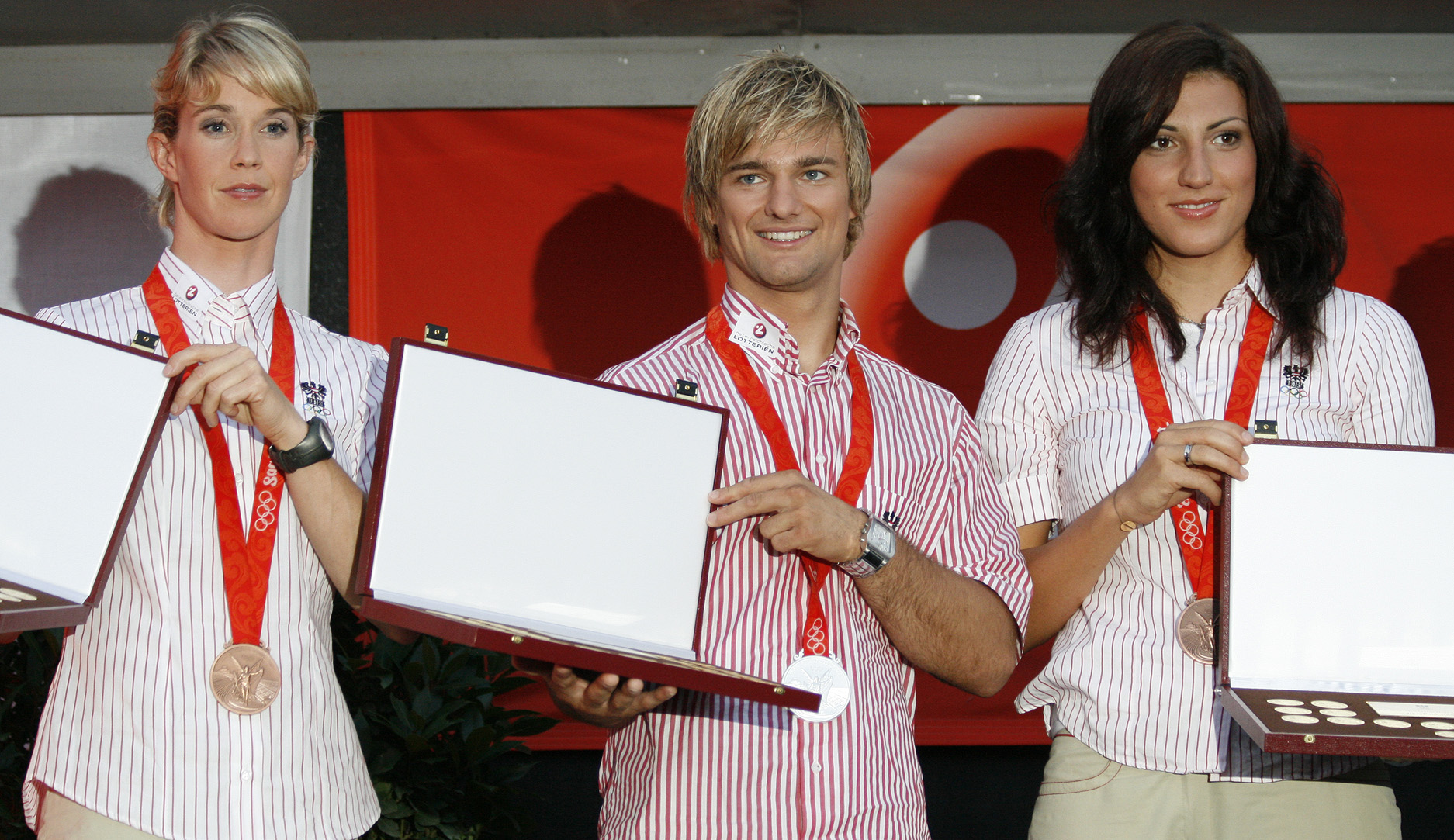 The Austrian medal winners of the 2008 Summer Olympics in Beijing: Violetta Oblinger-Peters (left), Ludwig Paischer (center) and Mirna Jukic (right).